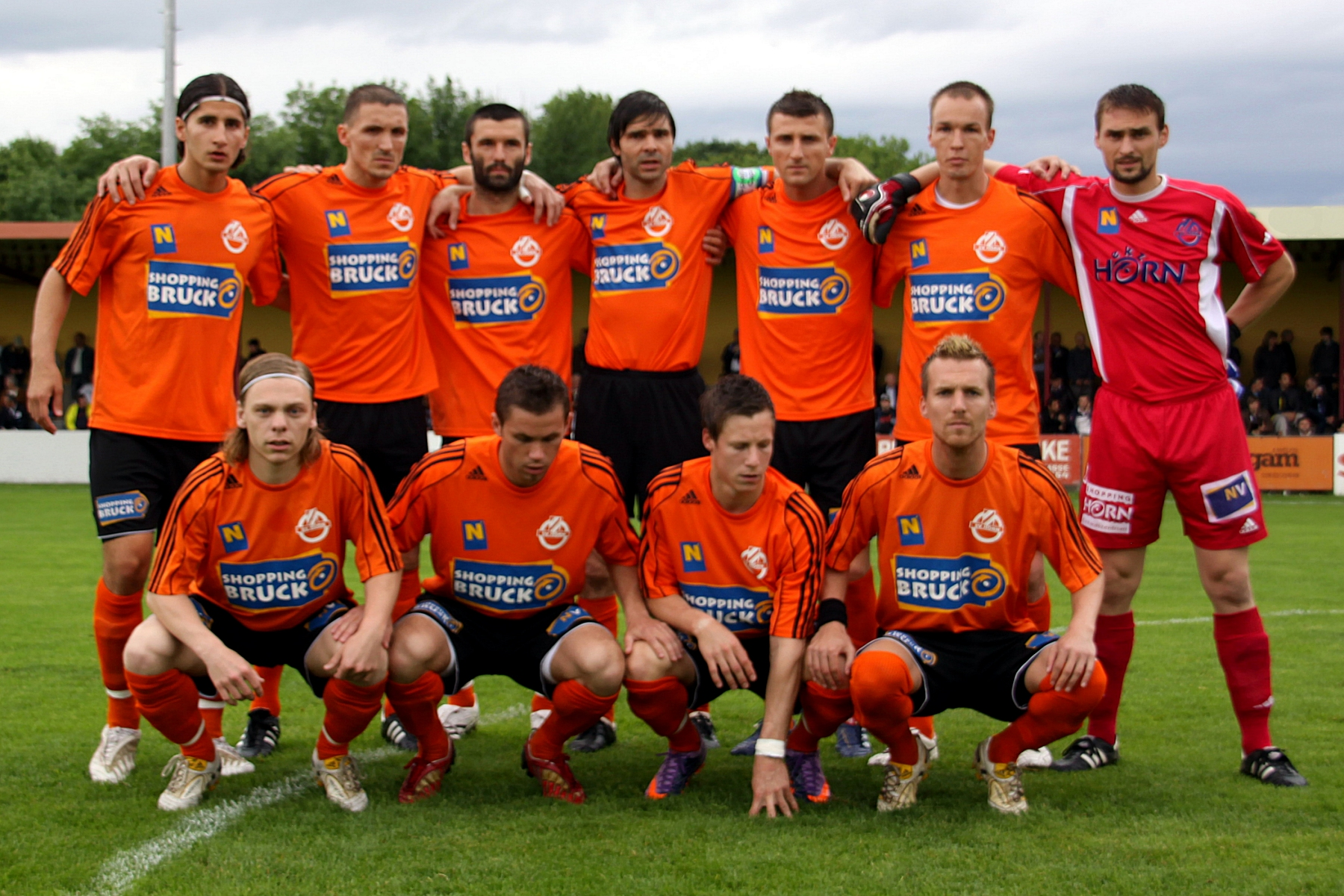 Teamfoto of SV Horn 2009/10